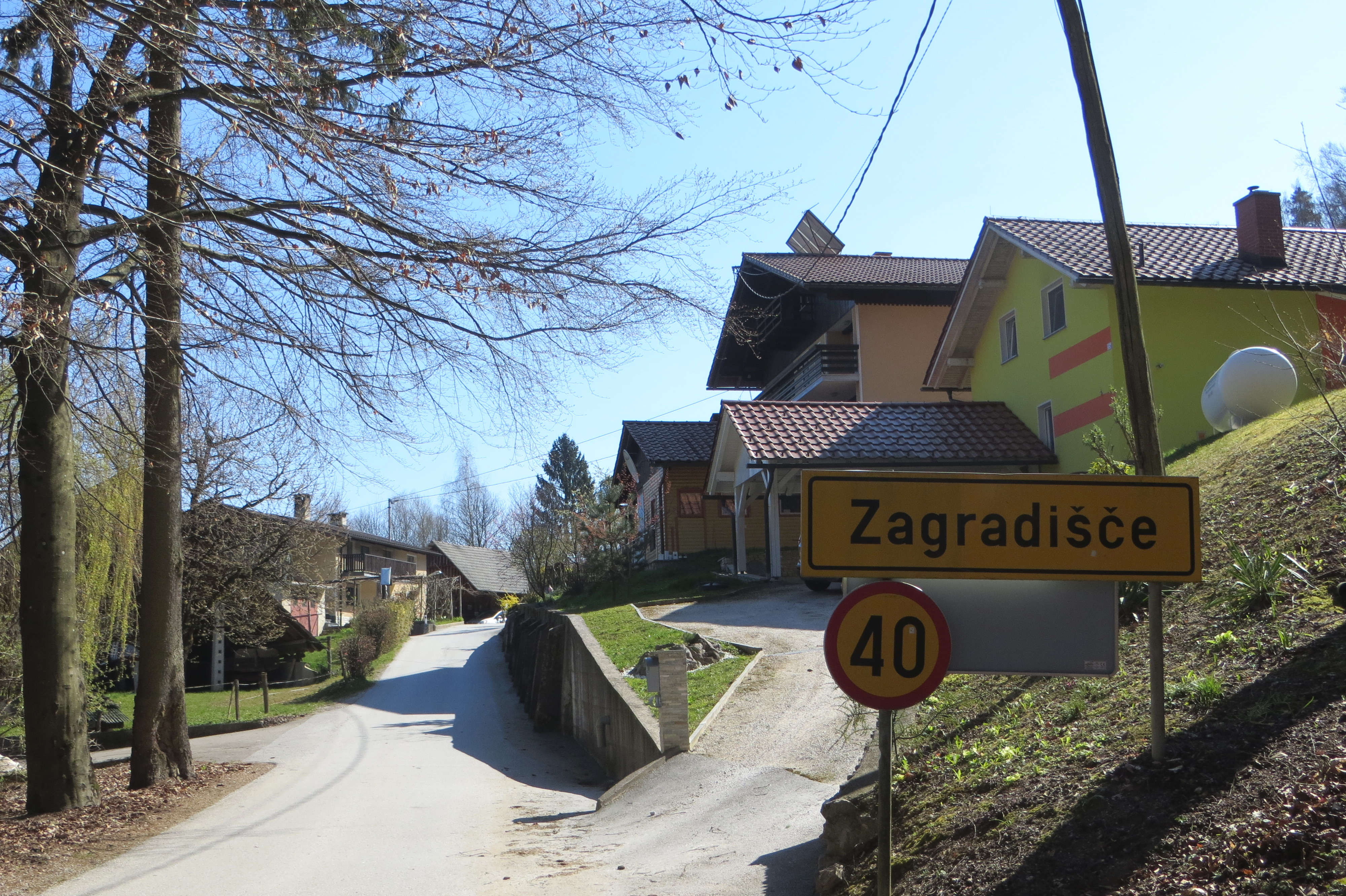 Zagradišče, Municipality of Ljubljana, Slovenia